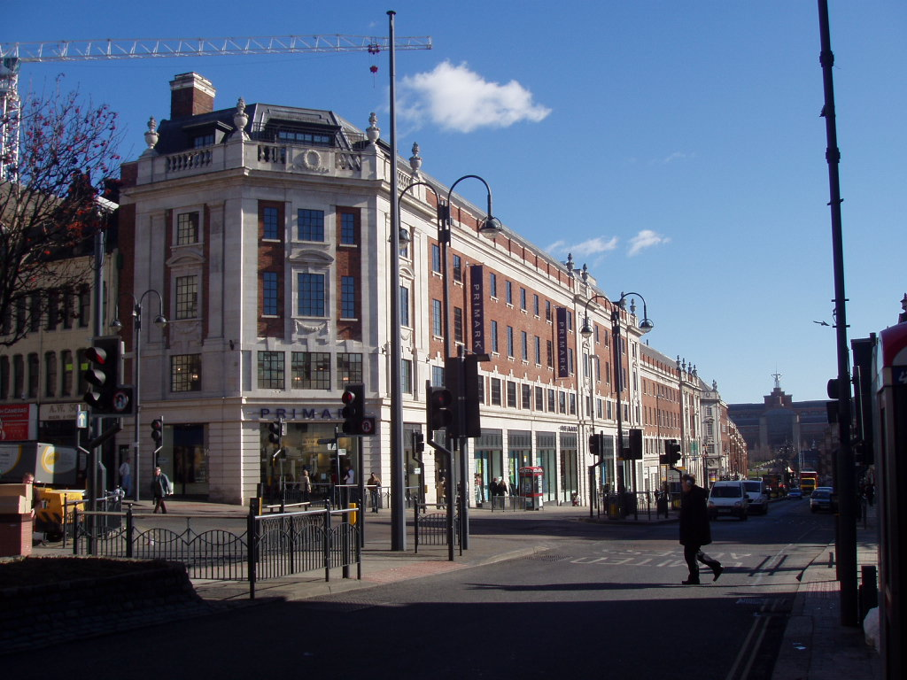 The picture shows the Leeds city centre branch of Primark on The Headrow in Leeds city centre. It was formerly an Odeon Cinema which was open from 1932 to 2000 and opened as Primark in August 2005. The picture was taken with an Olympus 5 megapixel camera and it is public domain.